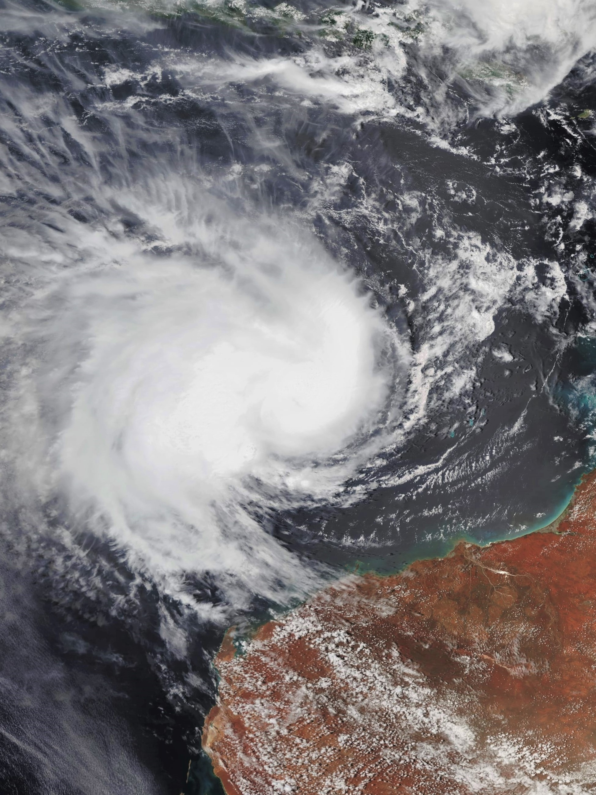 Severe Tropical Cyclone Claudia on January 13, 2020